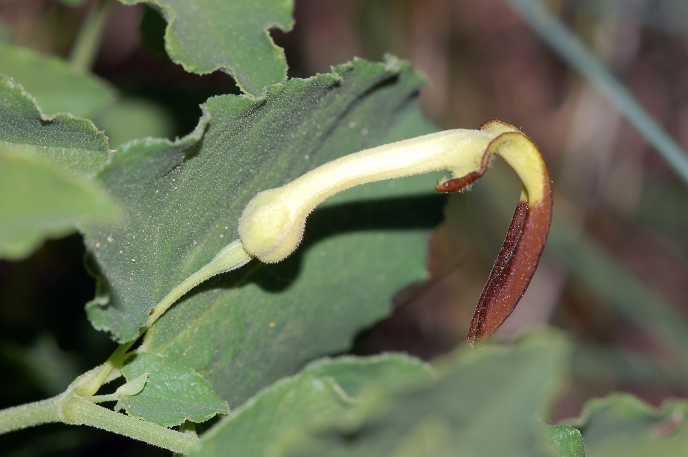 cf. Aristolochia pistolochia, Bedarieux Orb, Languedoc-Roussillon, France